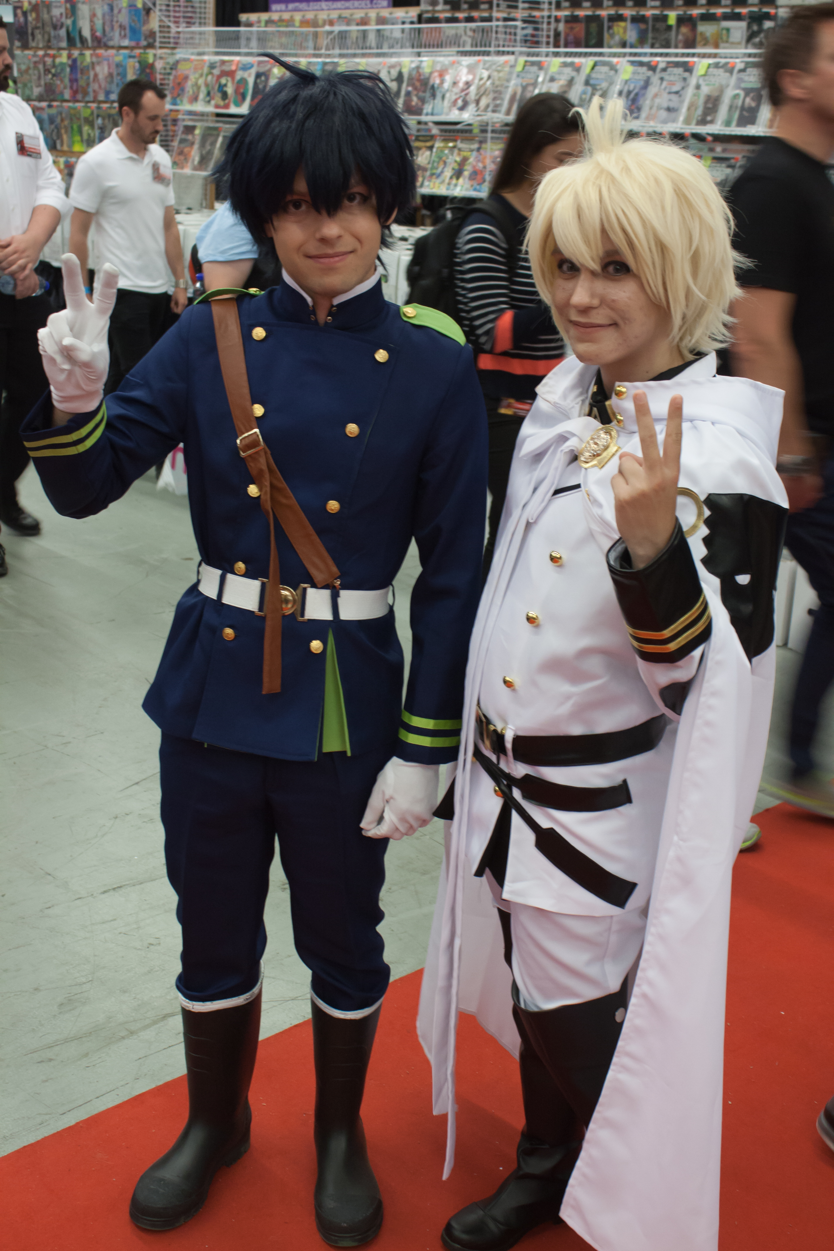 Cosplay on Friday, day one, of the Montreal Comiccon 2016.